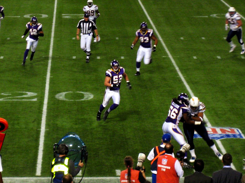 Minnesota Vikings LB Chad Greenway (52) against San Diego Chargers, during the 2007 regular season